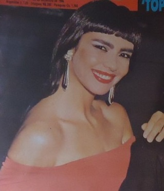 Susana Romero- actriz argentina